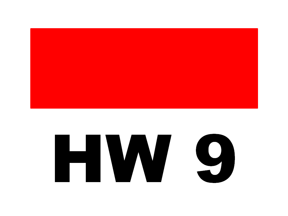 Germany - Baden-Württemberg: "Heuberg-Allgäu-Weg", hiking sign "HW 9"